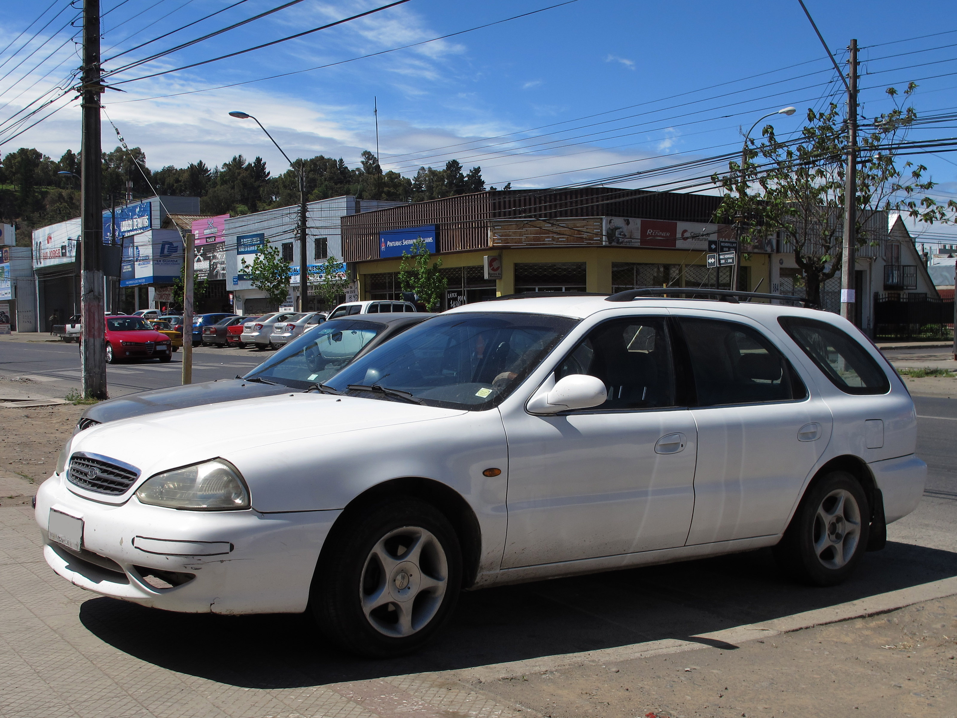 Kia Clarus 1.8 Park Town 2002